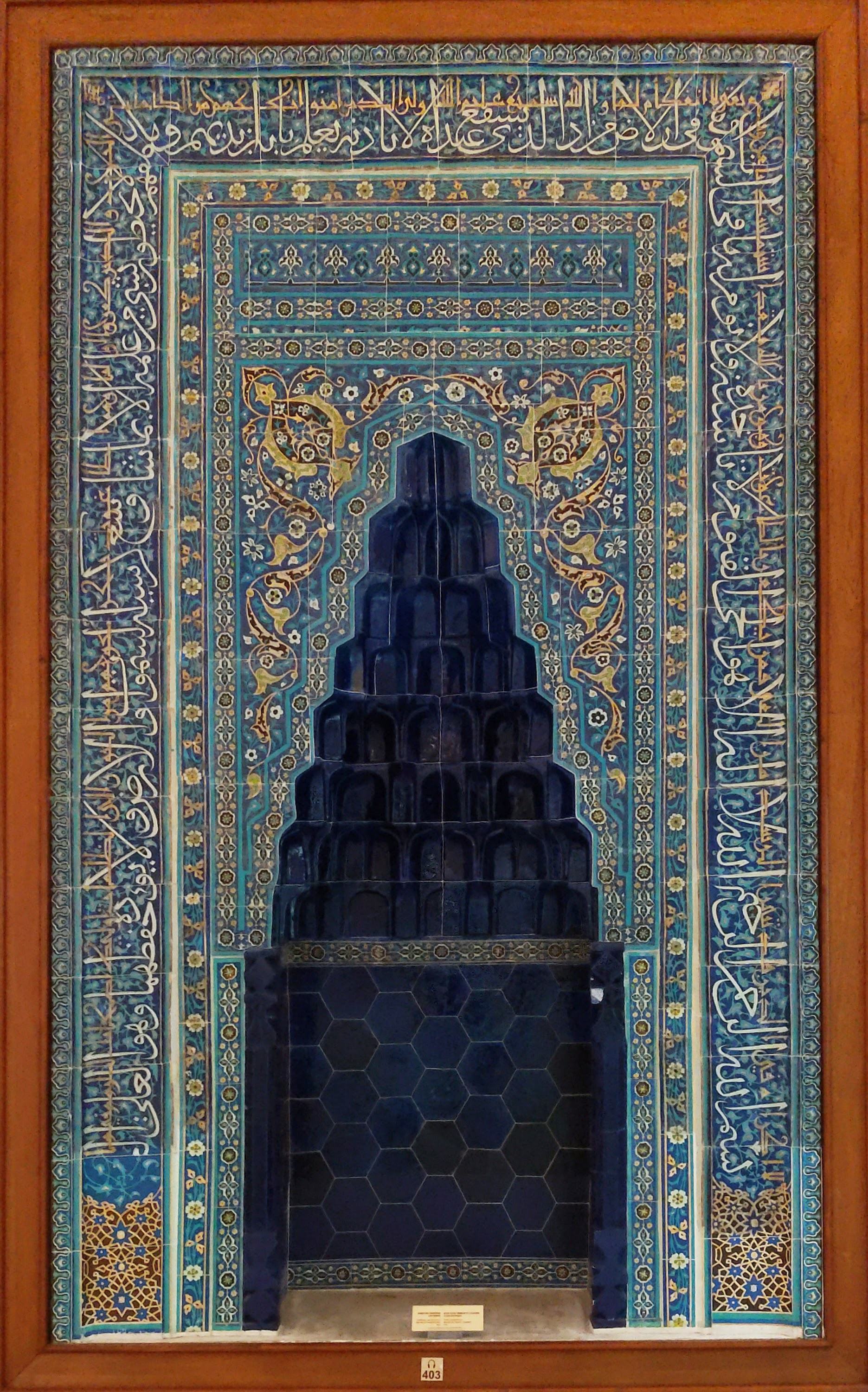 Tiled mihrab niche in coloured glaze-technique from Karamanoglu Ibrahim Bey Imaret, Karaman. Dated 1432, displayed in Tiled Kiosk Collection Istanbul Istanbul Archaeology Museums Native nameİstanbul Arkeoloji MüzesiLocationIstanbul, TurkeyCoordinates41° 00′ 42.01″ N, 28° 58′ 53″ E Established13 June 1892Web pageIstanbul Archaeology Museum pageAuthority control : Q636978 VIAF: 157337842 ULAN: 500300573 GND: 10004989-8 institution QS:P195,Q636978